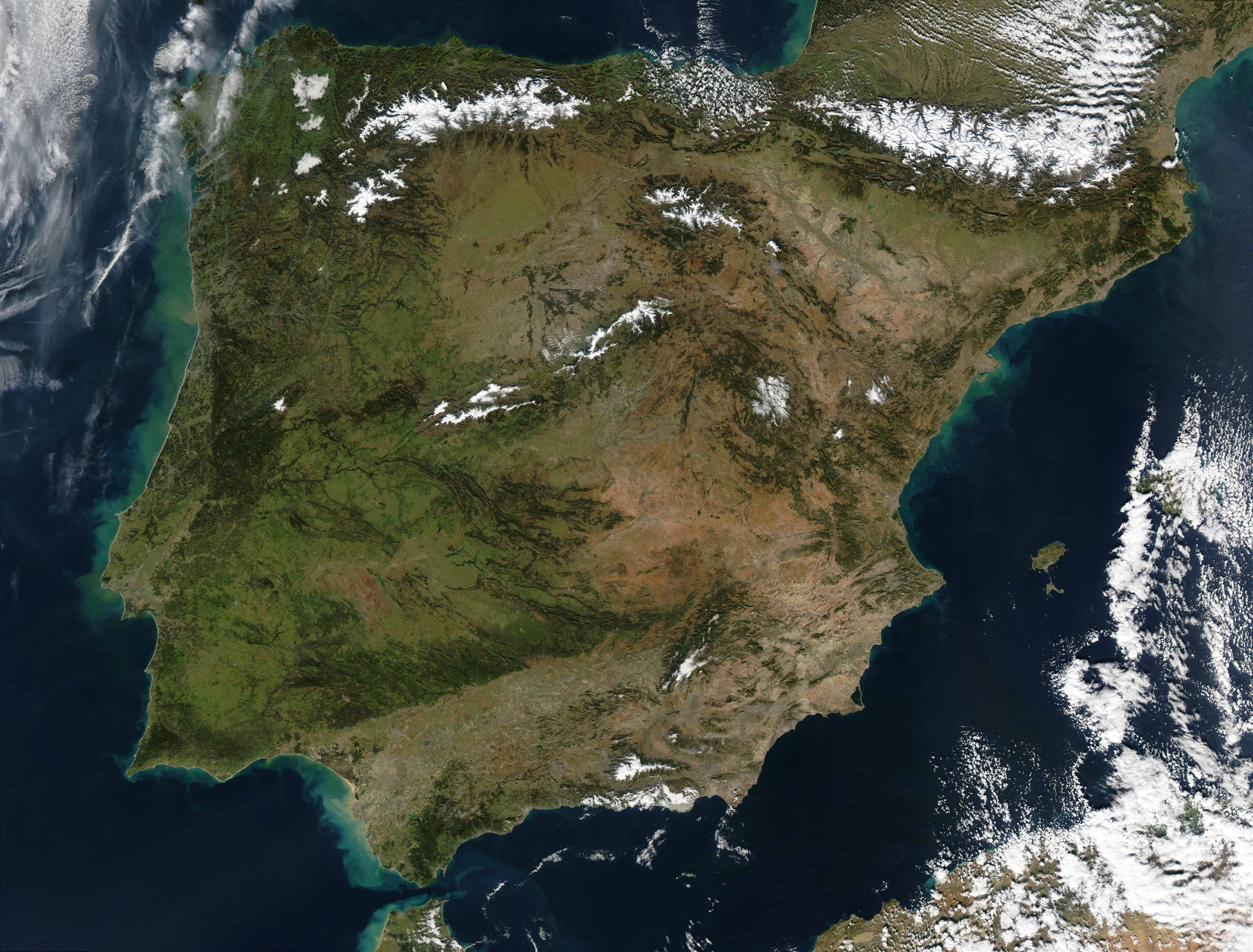 Satellite image of the Iberian Peninsula in January 2003 taken by the MODIS instrument on board NASA's Aqua satellite. NASA's description: The Iberian Peninsula, home to the countries of Spain and Portugal, stretches toward North Africa in this true-color Aqua MODIS image from January 24, 2003. Portugal sits on the Atlantic side of the peninsula, while Spain takes up the rest and shares a border with France to the northeast. At the bottom of the peninsula is a narrow gap between Europe and North Africa. This gap is the Strait of Gibraltar, which also serves as the buffer between the Atlantic Ocean and the Mediterranean Sea. The northern point of Morocco occupies the other side of the Strait, and farther to the east is northern Algeria.